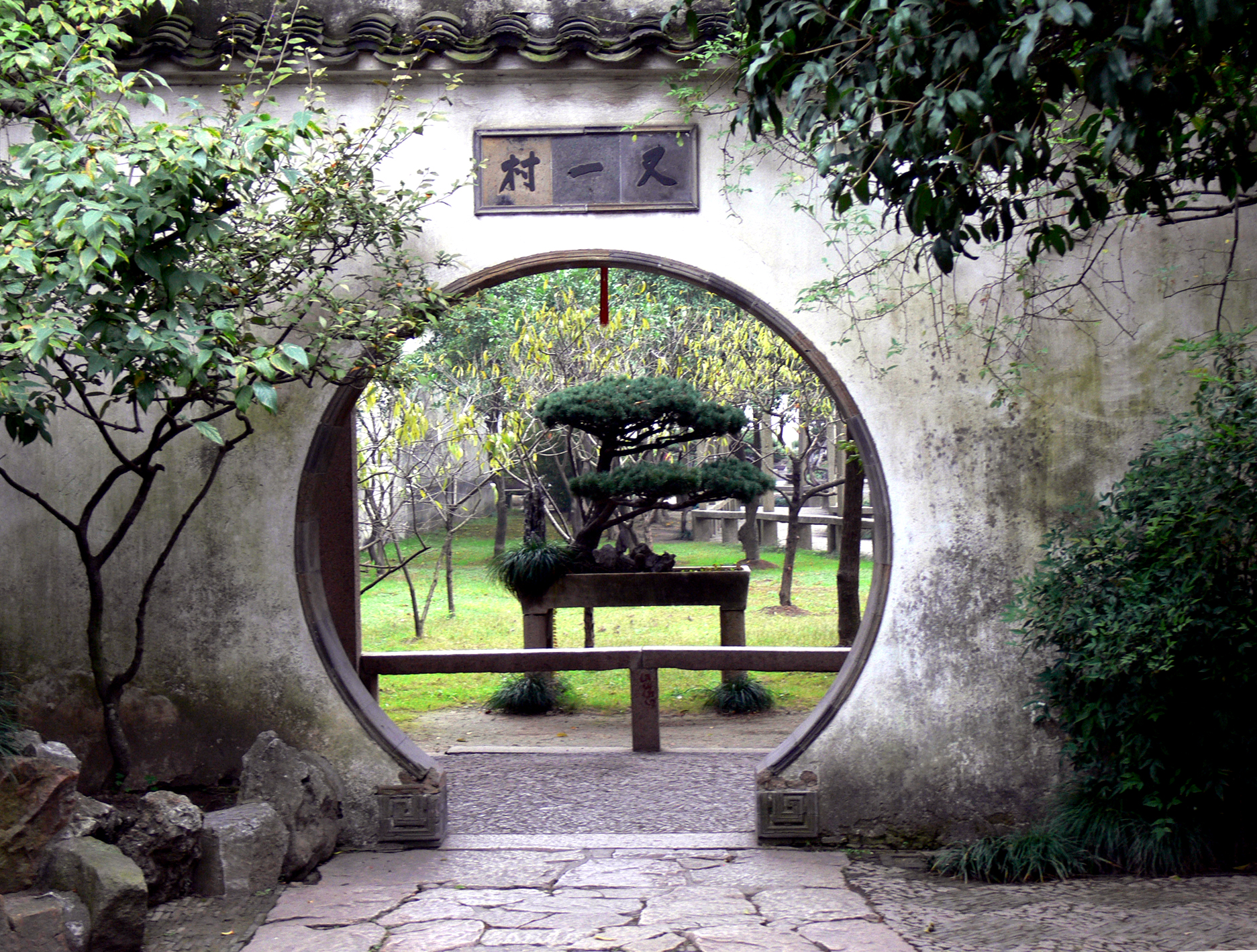 Suzhou, Youyicun garden in the Lingering Garden (苏州留园又一村)